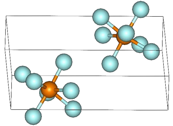 ReF7 structure at 1.5 K Vogt T., Fitch A.N., Cockcroft J.K. (1994). "Crystal and Molecular Structures of Rhenium Heptafluoride". SCIENCE, WASHINGTON D.C.: 1265–1267.